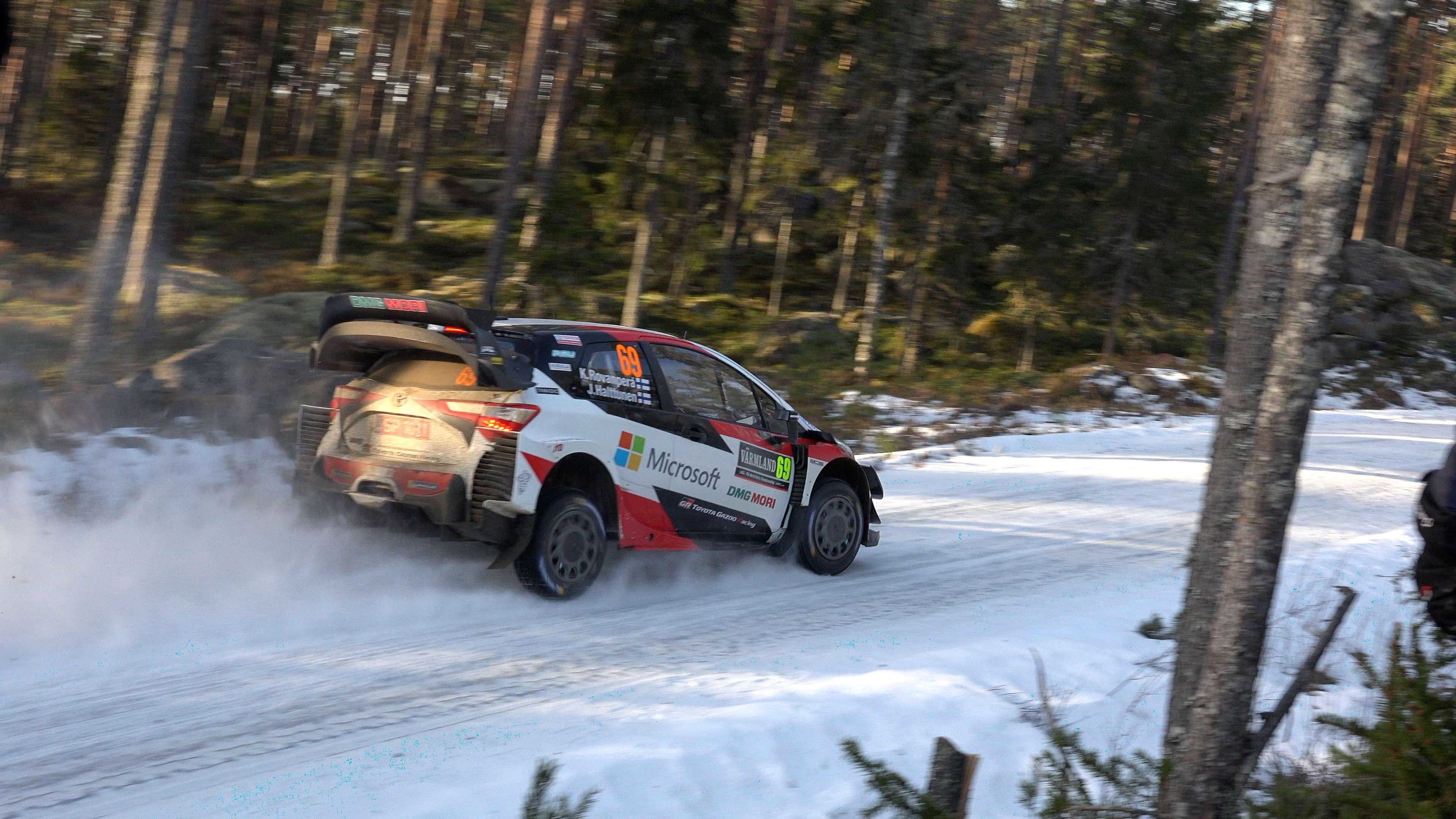 Kalle Rovanperä during Rally Sweden 2020.